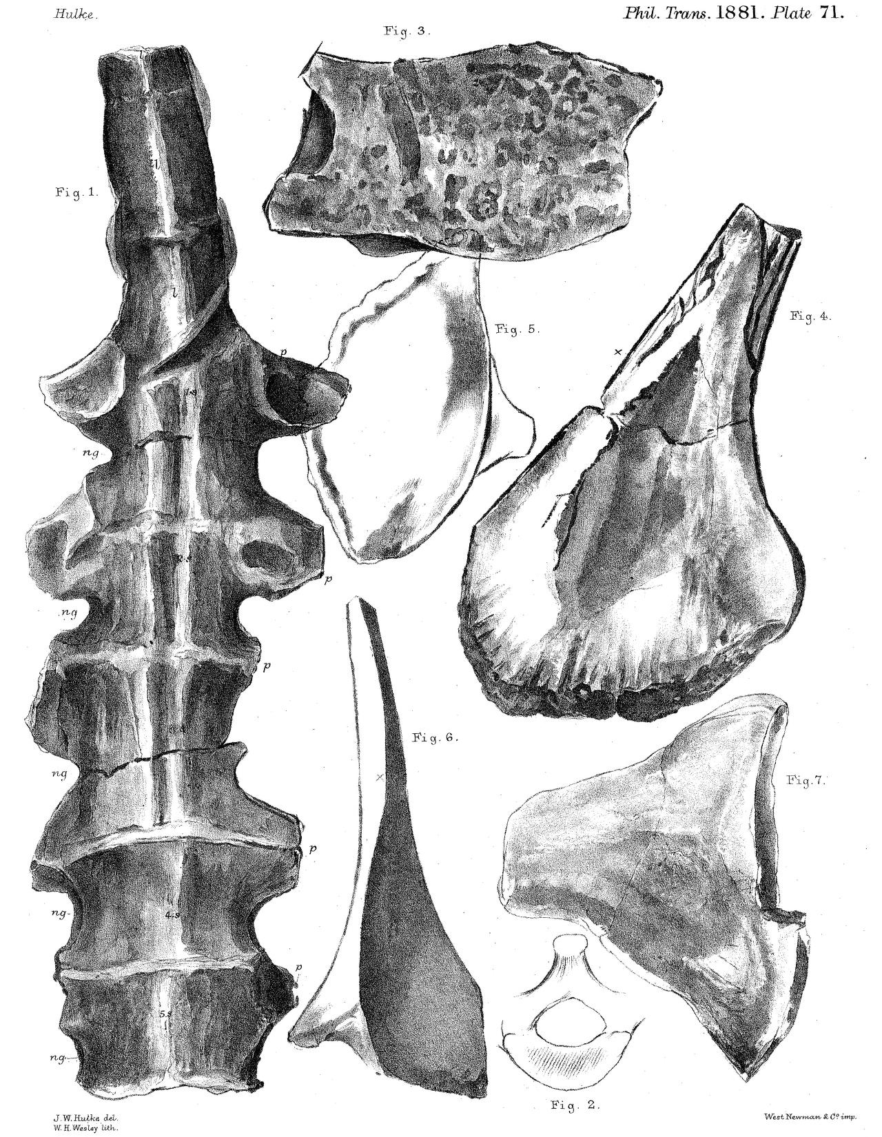 PLATE 71. (All the figures in this plate are represented rather less than one-half their natural size.) Fig. 1. Ventral view of sacrum and ancliylosed lumbar vertebrae. The numerals 1-5, s., mark the sacral, and the letters LI. I. the lumbar vertebrae. ng. Nerve-groove. i Quarterly Journal Geological Society,' yol. xxx., 1874, plate xxxi., figs. 1, 2. f In all the representations of vertebrae, c. Centrum, ns. Neural spinous process, prs. Prsezyga- pophysis. psz. Postzygapophysis, cl. Diapophysis. p. Parapophysis. c.c. Capitulurn costal r. Bib- Fig. 2. Cross sectional outline at fracture through the third sacral vertebra. Fig. 3. Dorsal view of fragment of the large scutal shield resting on the fourth and fifth sacral vertebras. Fig. 4. Lateral view of a large dermal spine. Fig. 5. Basal view of the same. Fig. 6. Edge view of the same. Fig. 7. Keeled scute with angularly excavated base. The border x in this and in fig. 4 correspond